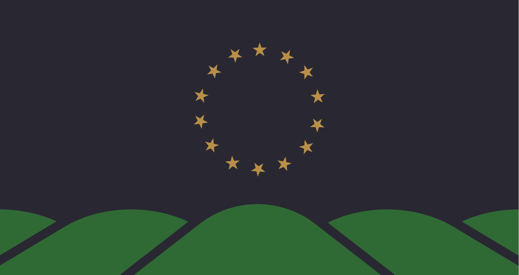 Flag of Montpelier, VT, officially adopted July 12, 2017